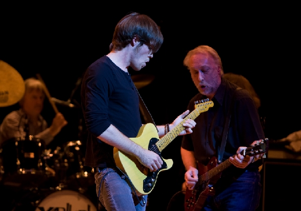 Chris Dreja and Ben King Basingstoke 2008 by Marc Lacaze Photographe